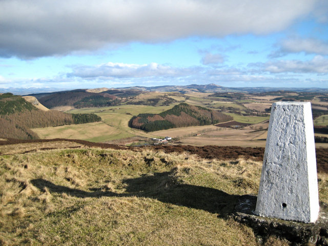 King's Seat Panoramic views on this superb bright winter's day. A superb vantage point.